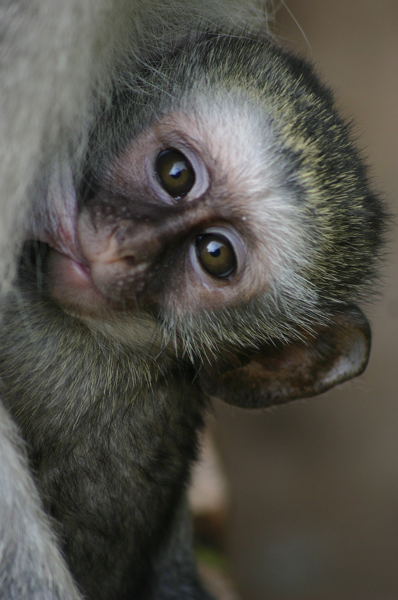 Infant vervet monkey attached to nipple, Hamerkop, Magaliesberg, South Africa